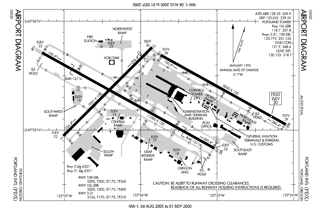 FAA airport diagram for Portland International Airport (PDX) in Portland, Oregon, United States.